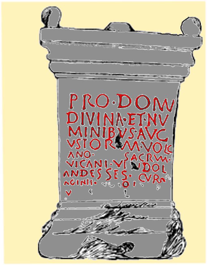 Altar dedicated to Volcanus, find date 1914, about 110 m. west of Vindolanda fort. Once in Chesters Museum, now on loan to Vindolanda Museum.